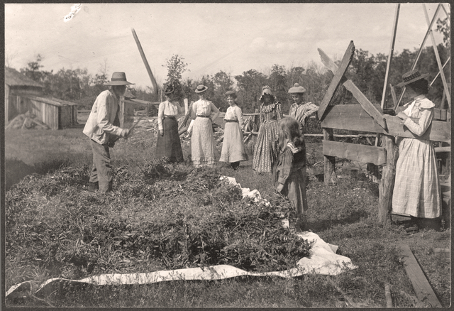 Scan from original photo, settlers flailing out beans at John Cummins farm in Eden Prairie, Minnesota